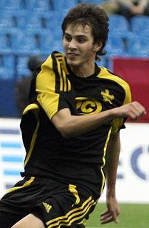 Alexandr Erokhin